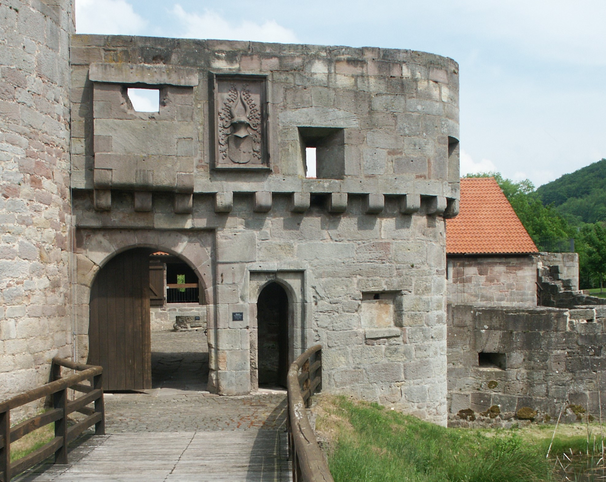 Gate of Castle Friedewald